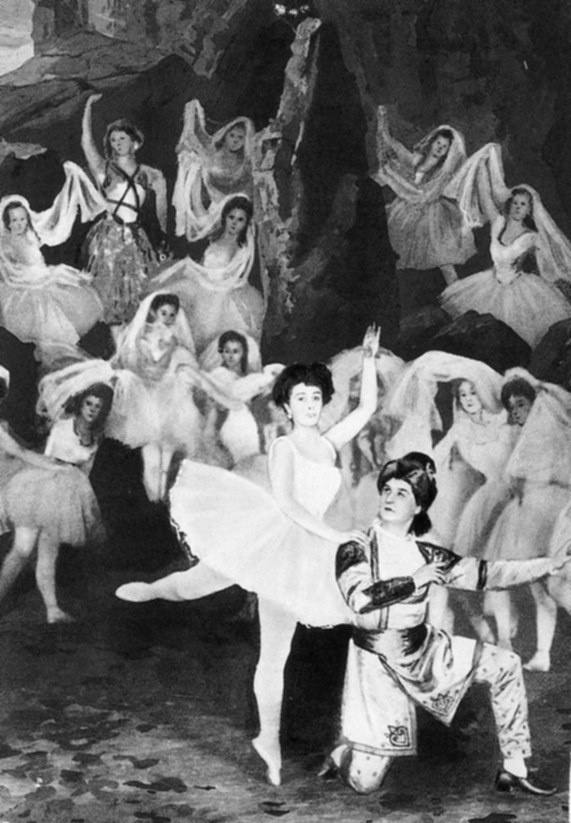 Portrait of the Mathilde Kschessinskaya (1872-1971), Prima ballerina of the St. Petersburg Imperial Theatres; the danseur Pavel Gerdt (1844-1917), Premier danseur of the St. Petersburg Imperial Theatres; and unidentified performers in a revival of the Ballet Master Marius Petipa (1818-1910) and the composer Ludwig Minkus's (1826-1917) ballet "La Bayadère".